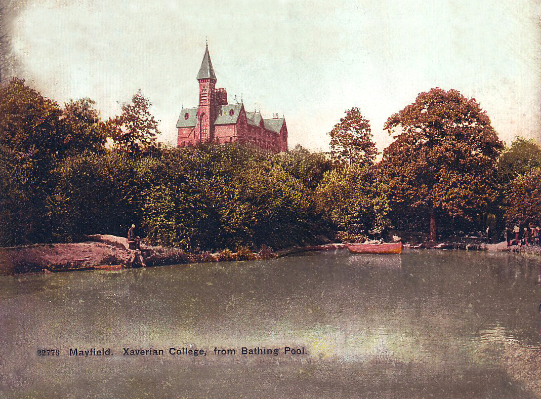 Colourized b/w photo depicting pupils and staff around the boating lake/swimming pool and showing Pugin's tower & ornamentation before it was removed in 1913.